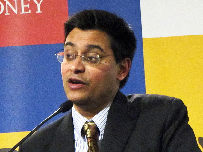 Professor Rana Mitter in 2013 at the University of Sydney